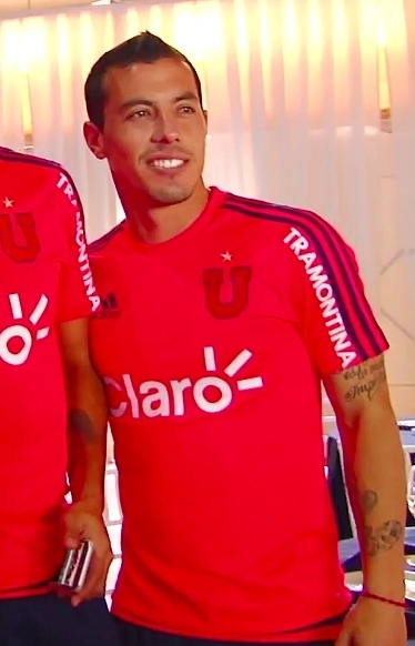 Delantero Club Universidad de Chile